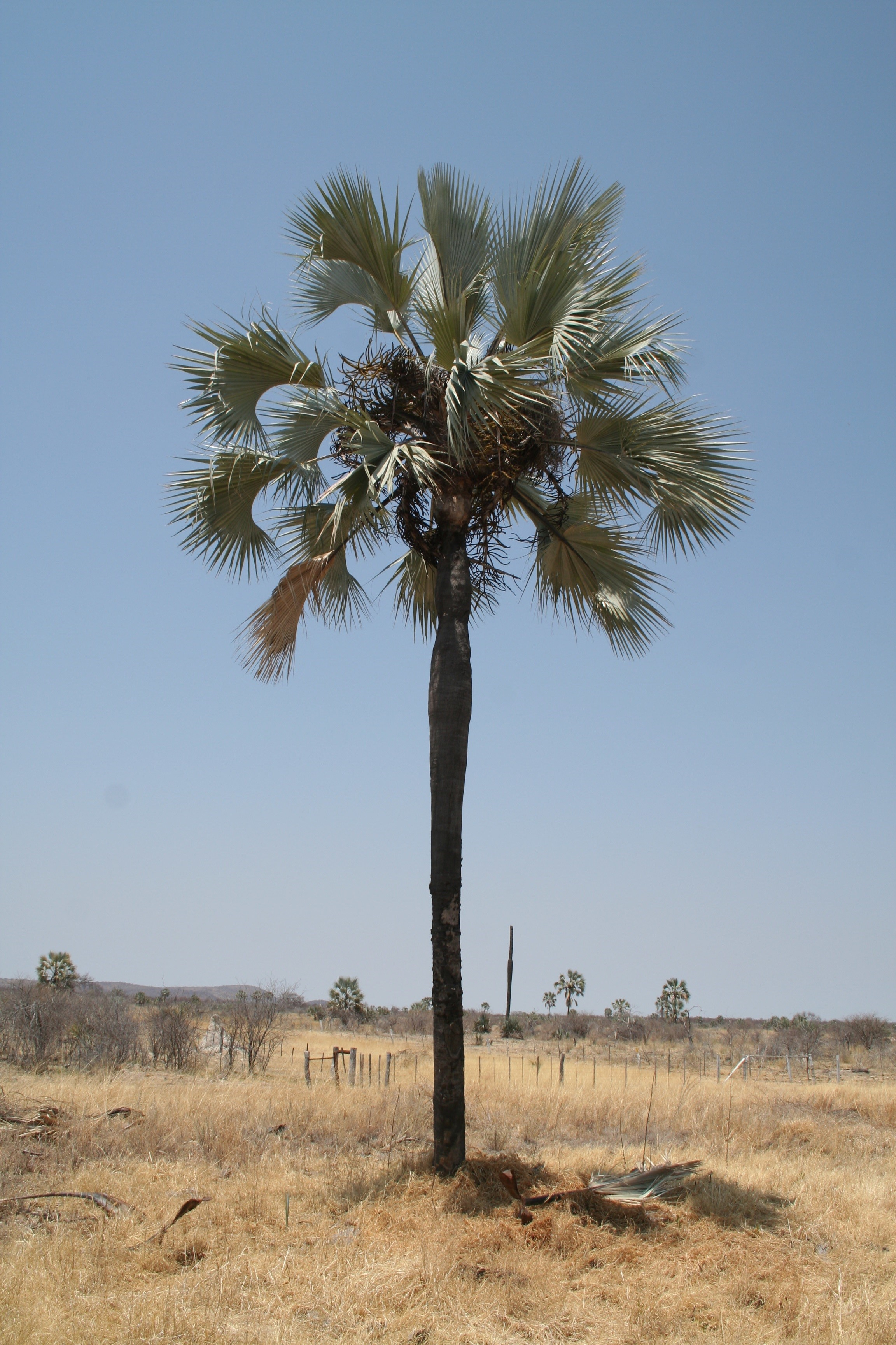 A Real fan palm in northern Namibia, locally known as the Makalani Palm, Omulunga, Epokola or Mbare. The bulging trunk is also a feature of the Borassus Palm.